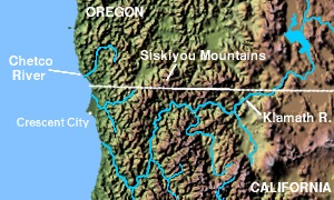 A map of the Chetco River — in Curry County, southwestern Oregon. Entirely within the Rogue River-Siskiyou National Forest, and the Klamath Mountains. Also shows the Klamath River watershed in northern California and Oregon. © 2004 Matthew Trump